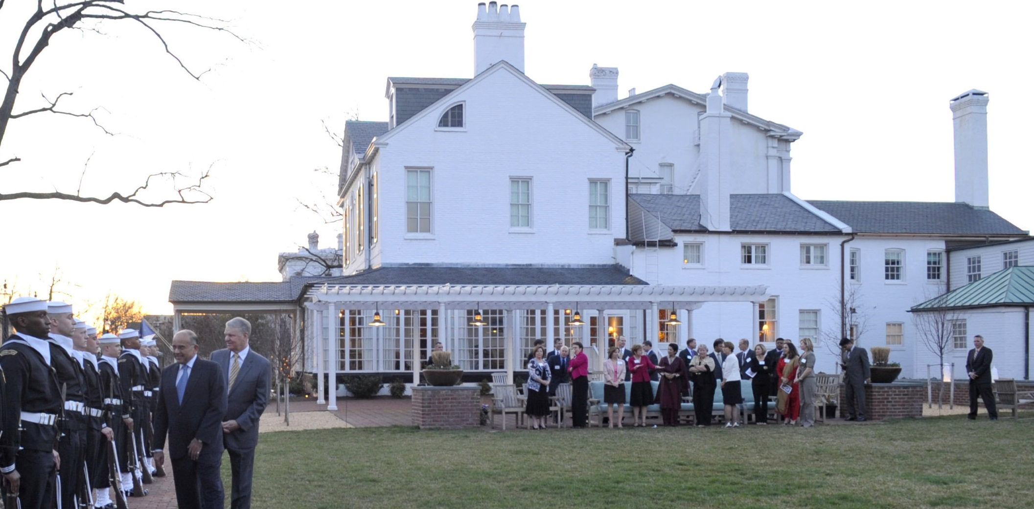 Adm. Noman Bashir, chief of Naval Staff of the Pakistani navy, left, and Adm. Gary Roughead, chief of Naval Operations, inspect members of the U.S. Navy Ceremonial Guard at Tingey House, the official residence of the CNO. Roughead and his wife, Ellen, hosted a dinner in honor of Bashir and his wife.